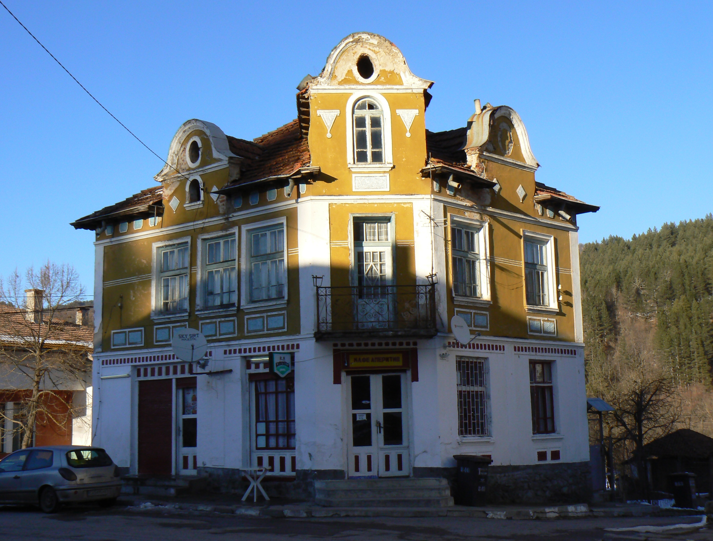 A beautiful house turned into cafe in the centre of village Treklyano, Bulgaria